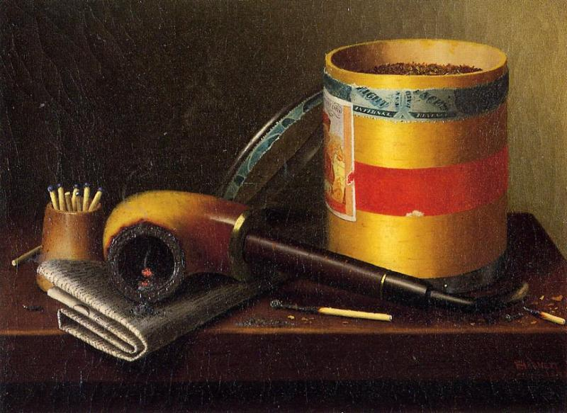 "Still Life," oil on canvas, by the American artist William Michael Harnett. Courtesy of the Chrysler Museum of Art.